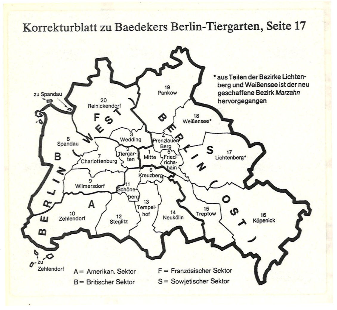 Scan of a correction sticker to the Baedeker Berlin-Tiergarten 1984 (Boroughs of Berlin)